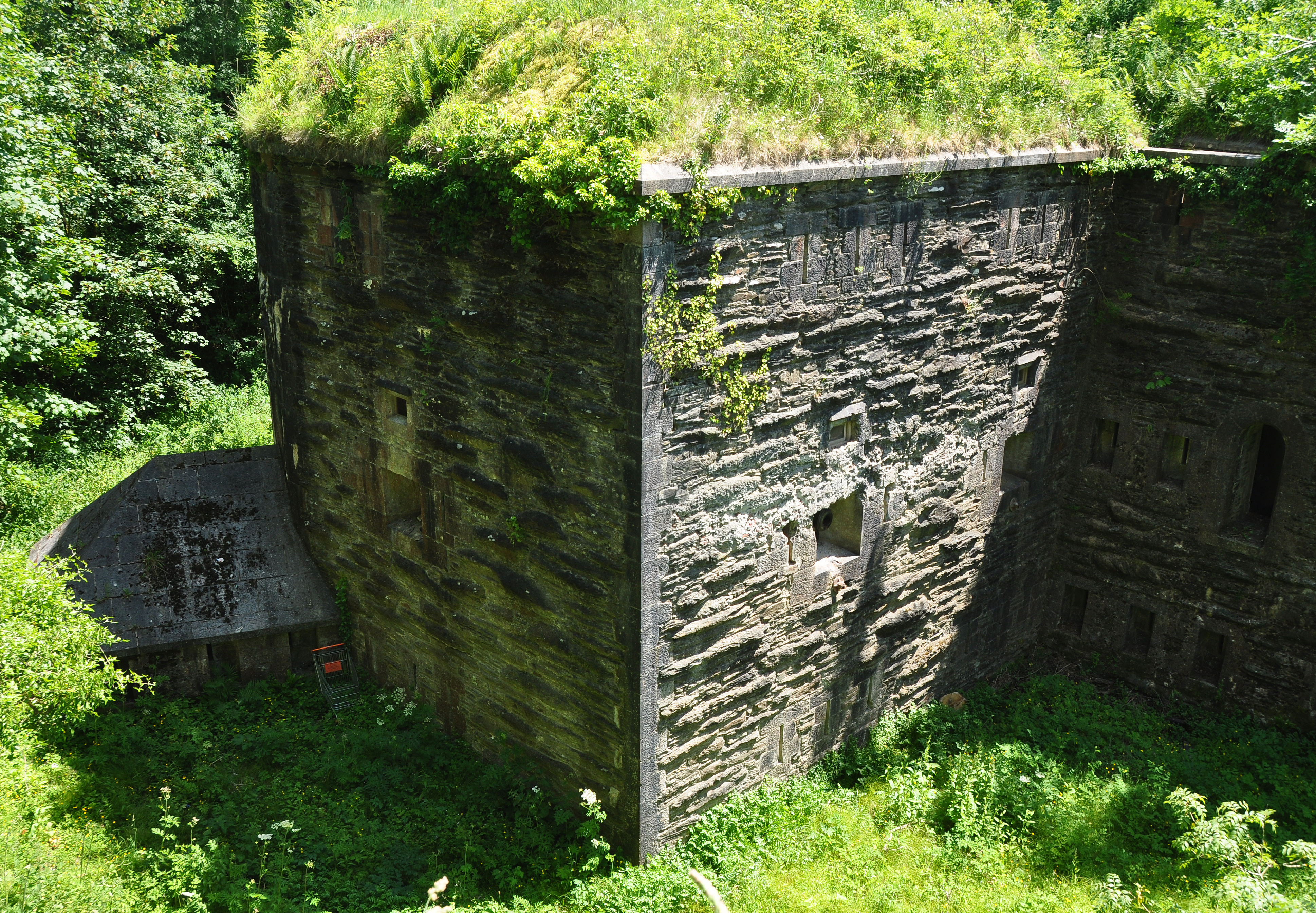 The double caponier at the north of Crownhil Fort, in the north of Plymouth, Devon